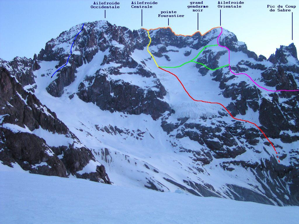 Ailefroide - South face - Routes